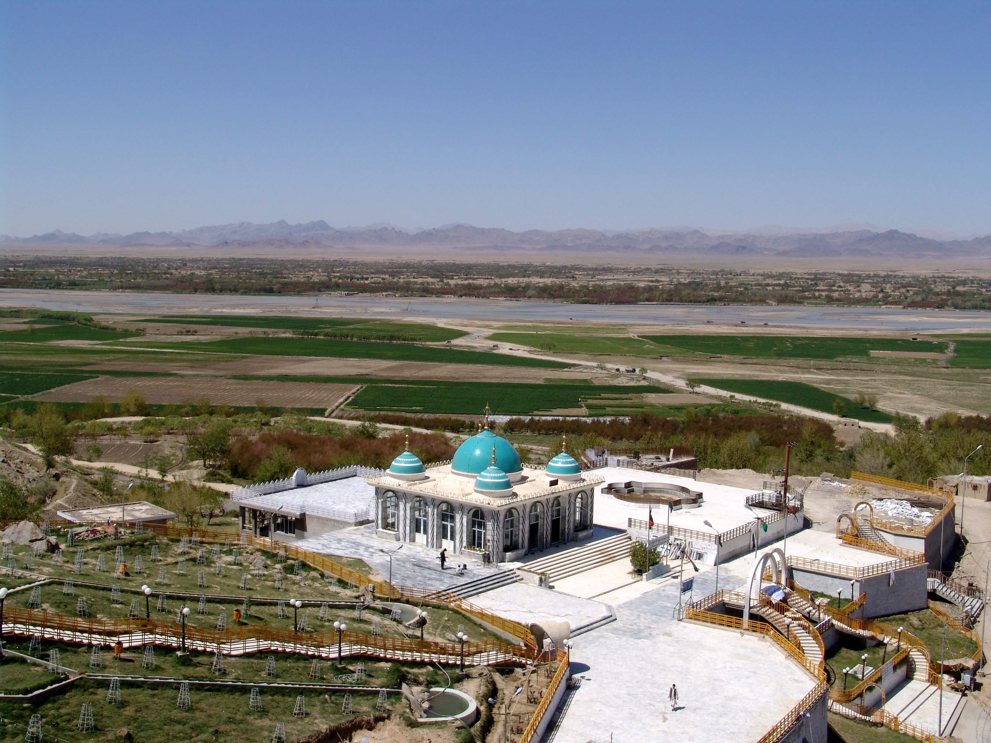 The shrine of Baba Wali (commonly known as Baba Saab) in the Arghandab area, on the outskirts of Kandahar City in Afghanistan.